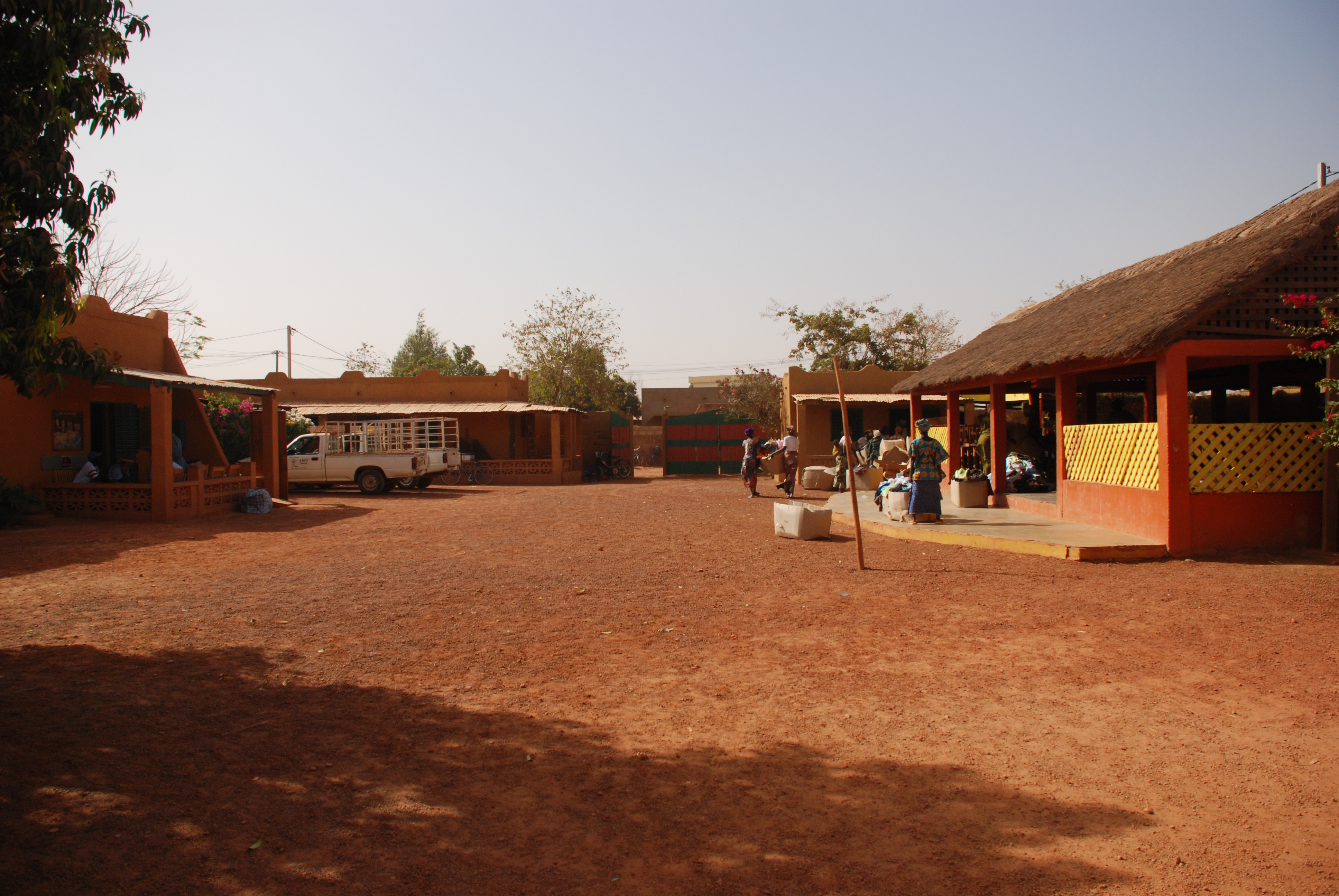 Burkina Faso: courtyard of AMPO, an orphanage in Ouagadougou, lead by Katrin Rohde